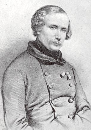 Jenaro Pérez Villaamil (1807–1854) Alternative namesGenaro Pérez VillaamilDescriptionpainterDate of birth/death3 February 18075 June 1854Location of birth/deathFerrol, SpainMadrid, SpainAuthority control : Q71992 VIAF: 169703719 ISNI: 0000 0001 1854 7686 ULAN: 500111885 LCCN: n87939575 GND: 118882392 WorldCat